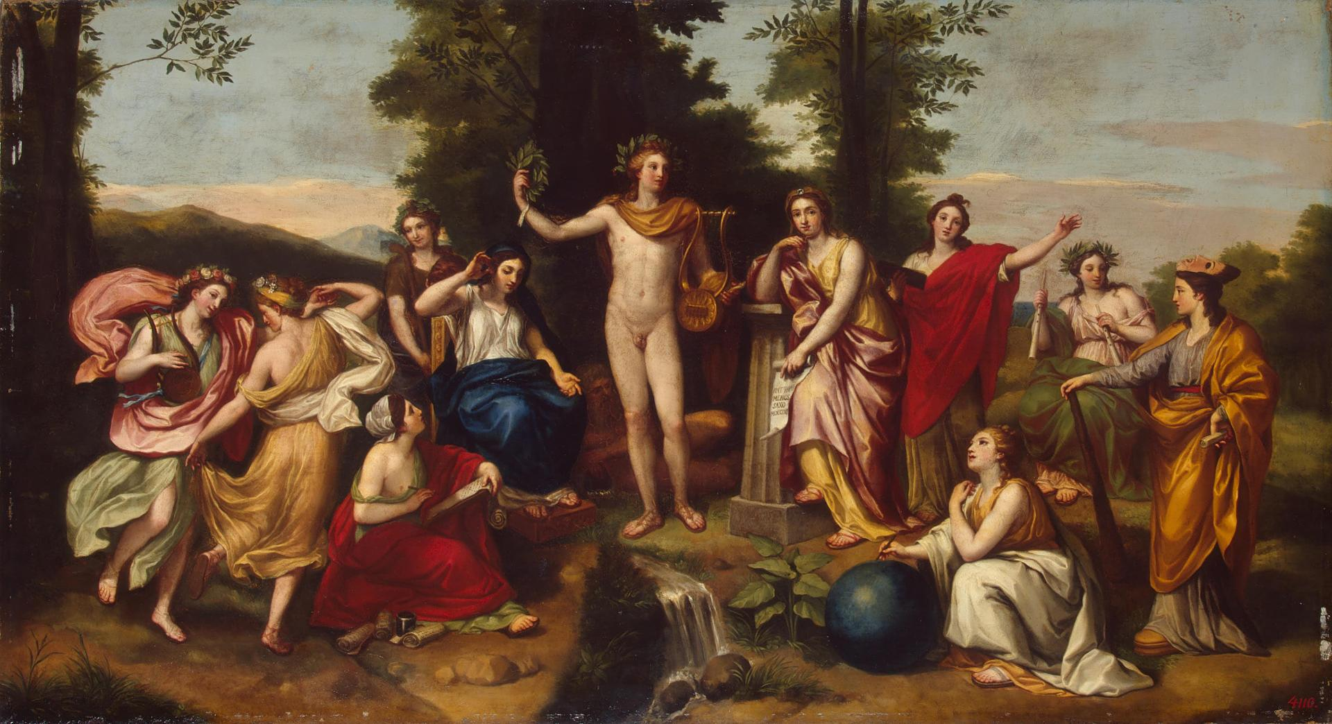 This painting was a sketch for Mengs's fresco of 1761 in the central part of the ceiling of the Villa Albani in Rome, commissioned by Cardinal Alessandro Albani.